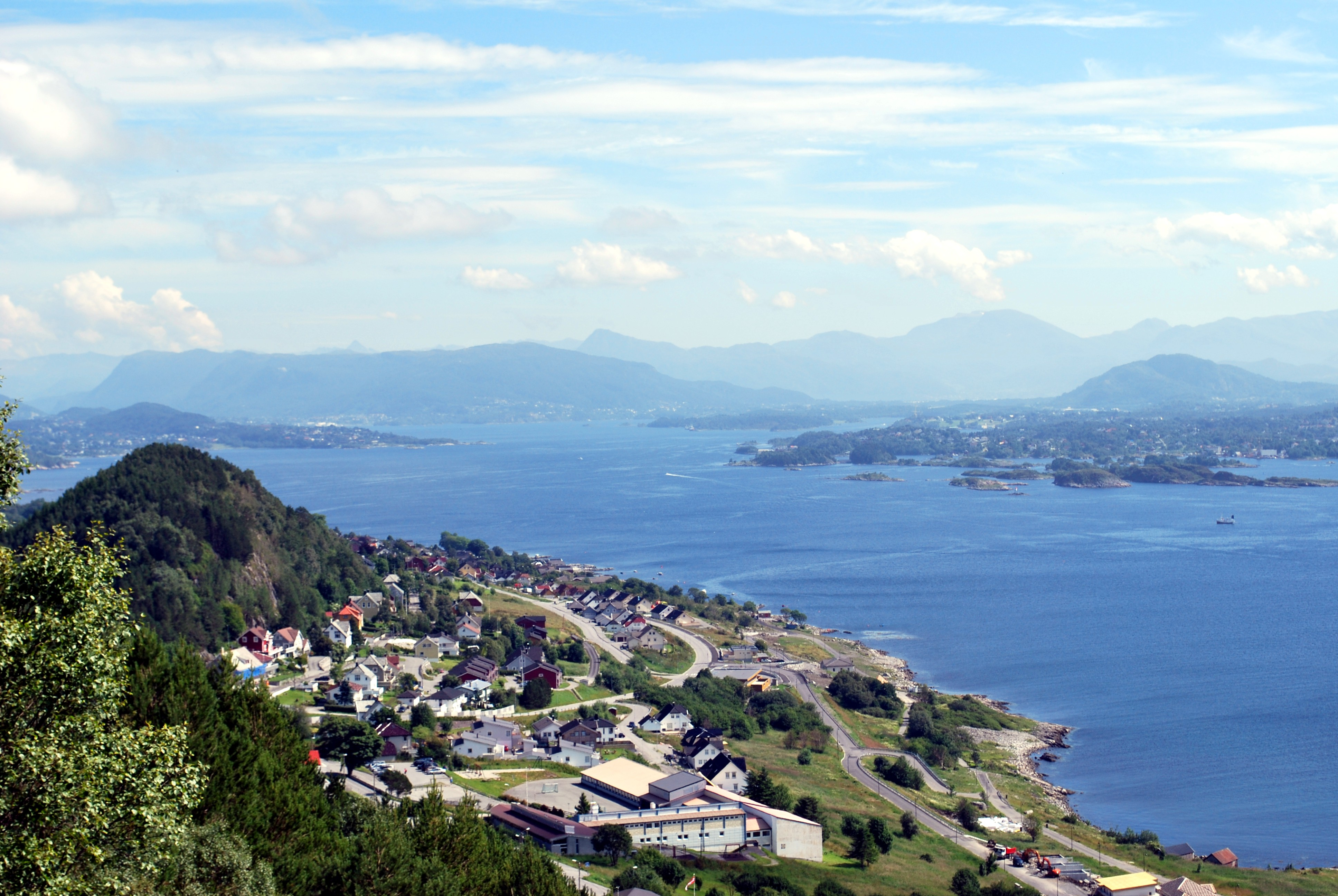 Ålesund, Norway. Hessa with Slinningen in foreground. Borgundfjorden with Åsefjorden in the background.